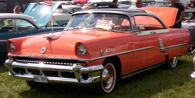 Mercury Montclair Sun Valley 1955